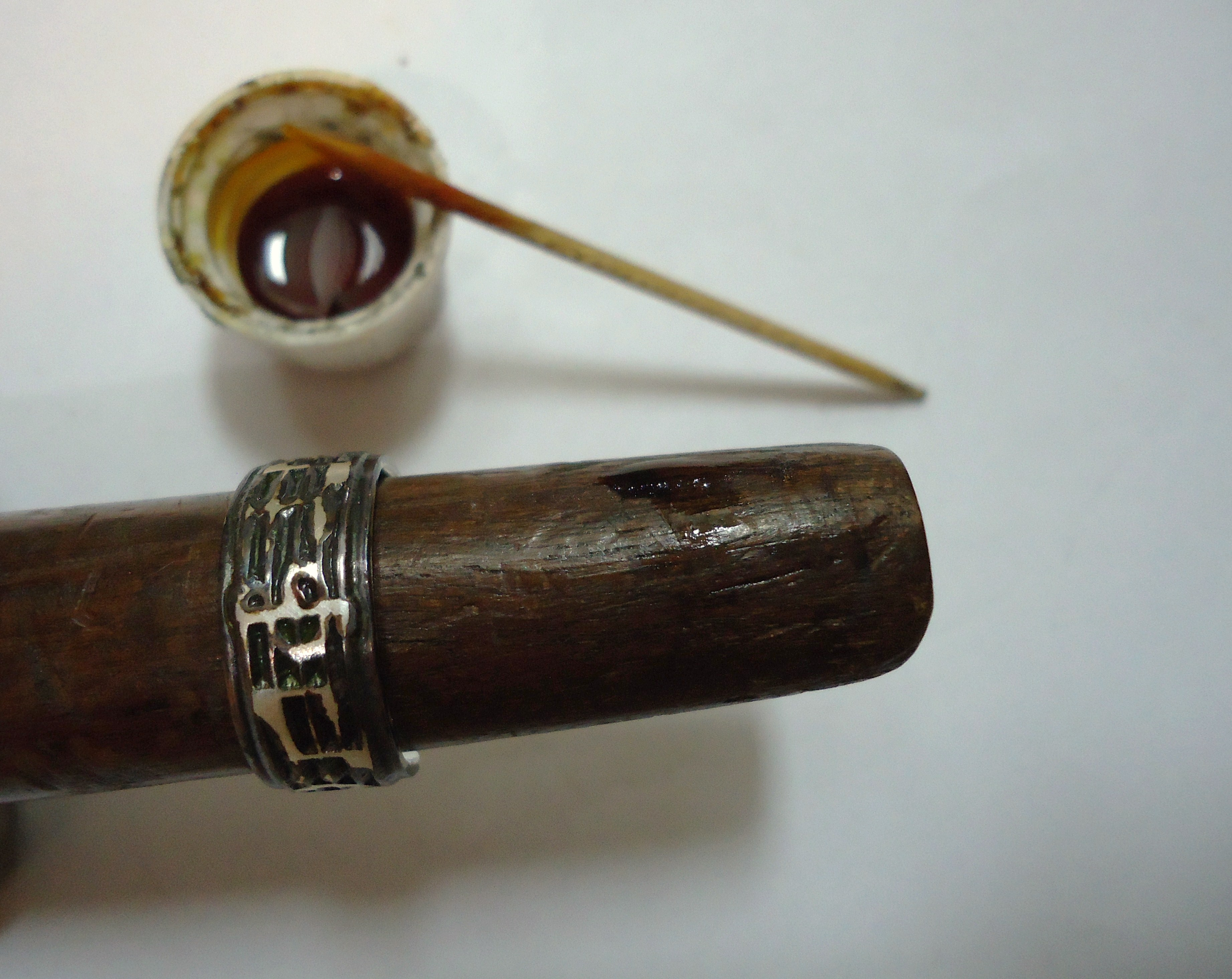 Liver of sulfur, a mixture of potassium sulfides, is used here to darken some areas of this silver ring. "Oxidizer" and "oxidation" are wrong terms, since this chemical reaction has nothing to do with oxygen. Mauro Cateb, Brazilian jeweler and silversmith.